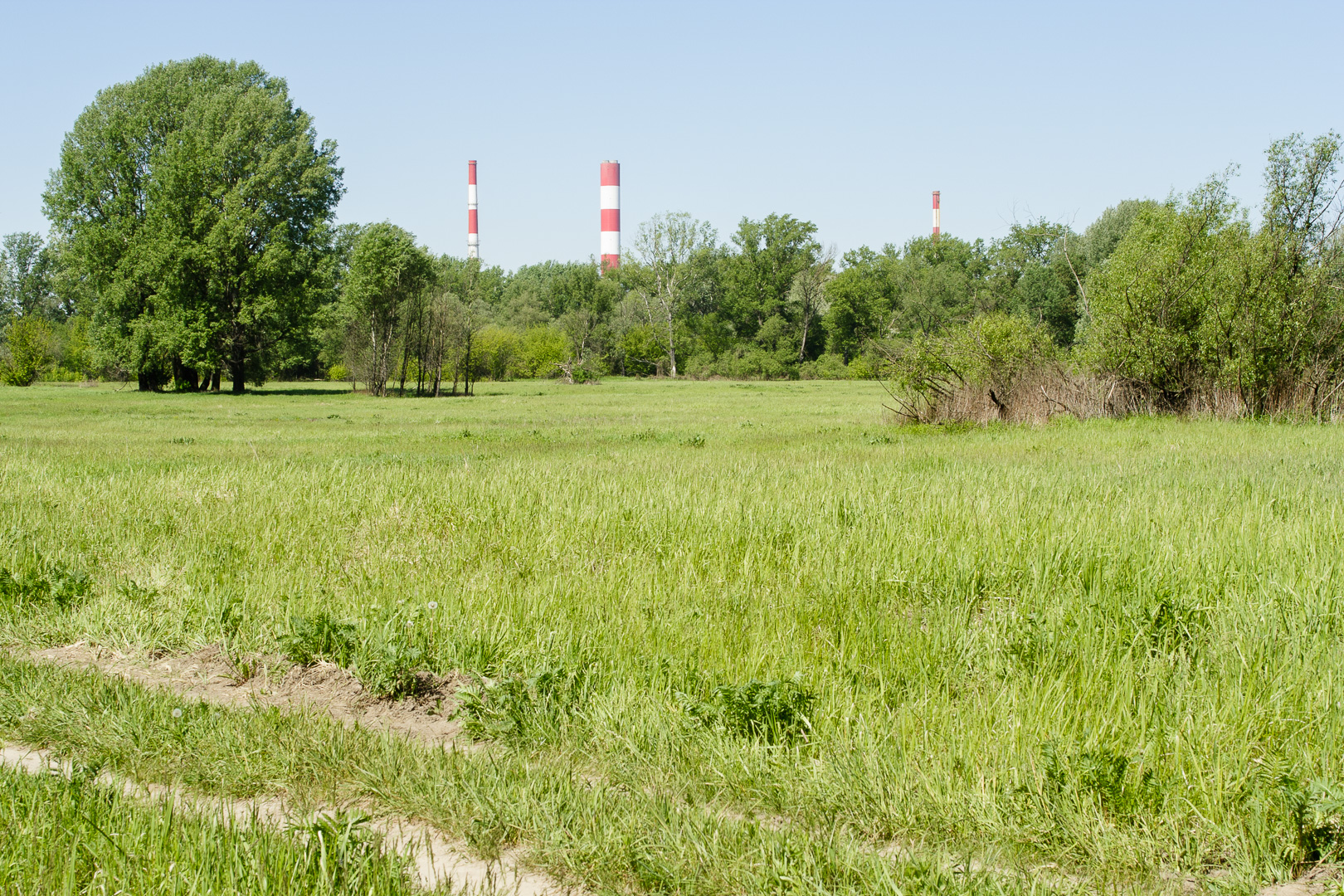 On the Kępa Wieloryb. The chimneys of the CHP „Siekierki” in the background. Zerzeń, Wawer, Warsaw, Poland. This is a photography of Natura 2000 protected area with ID PLB140004